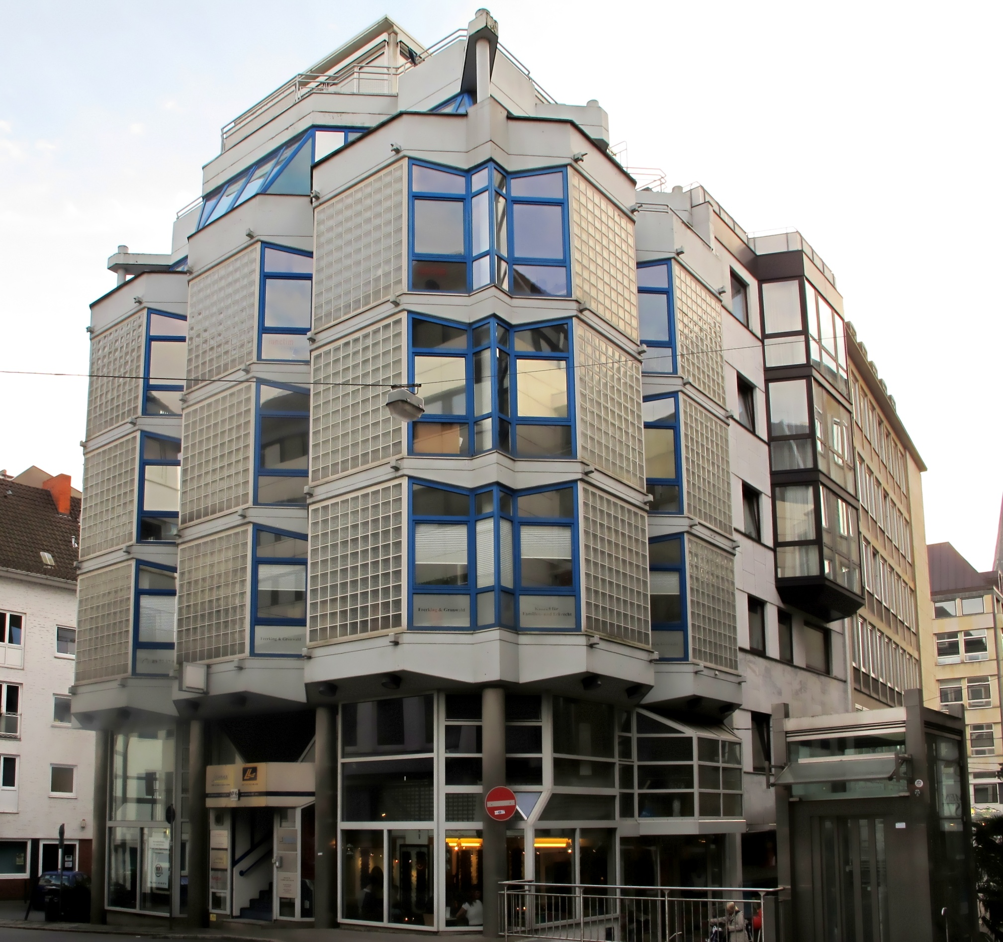 Commercial Building Bischofsnadel 6, Bremen (Germany)